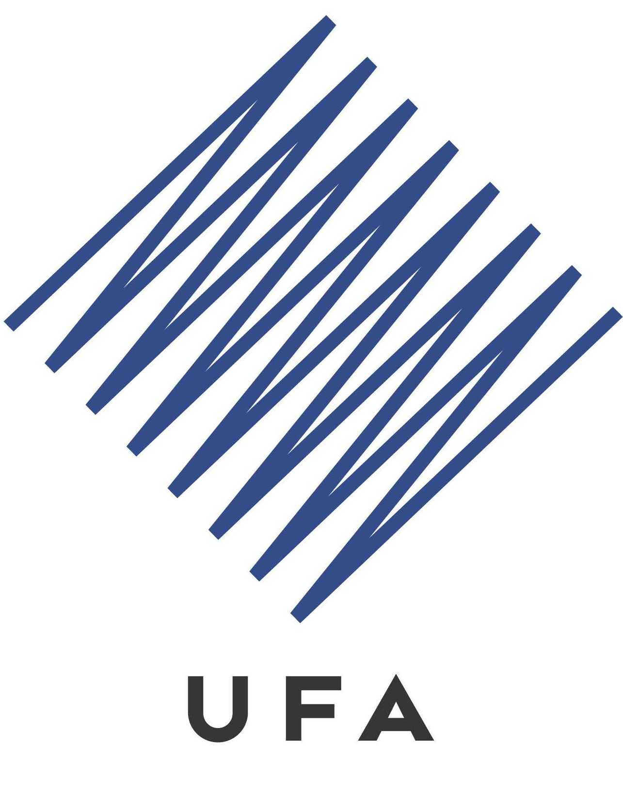 Raute UFA Logo